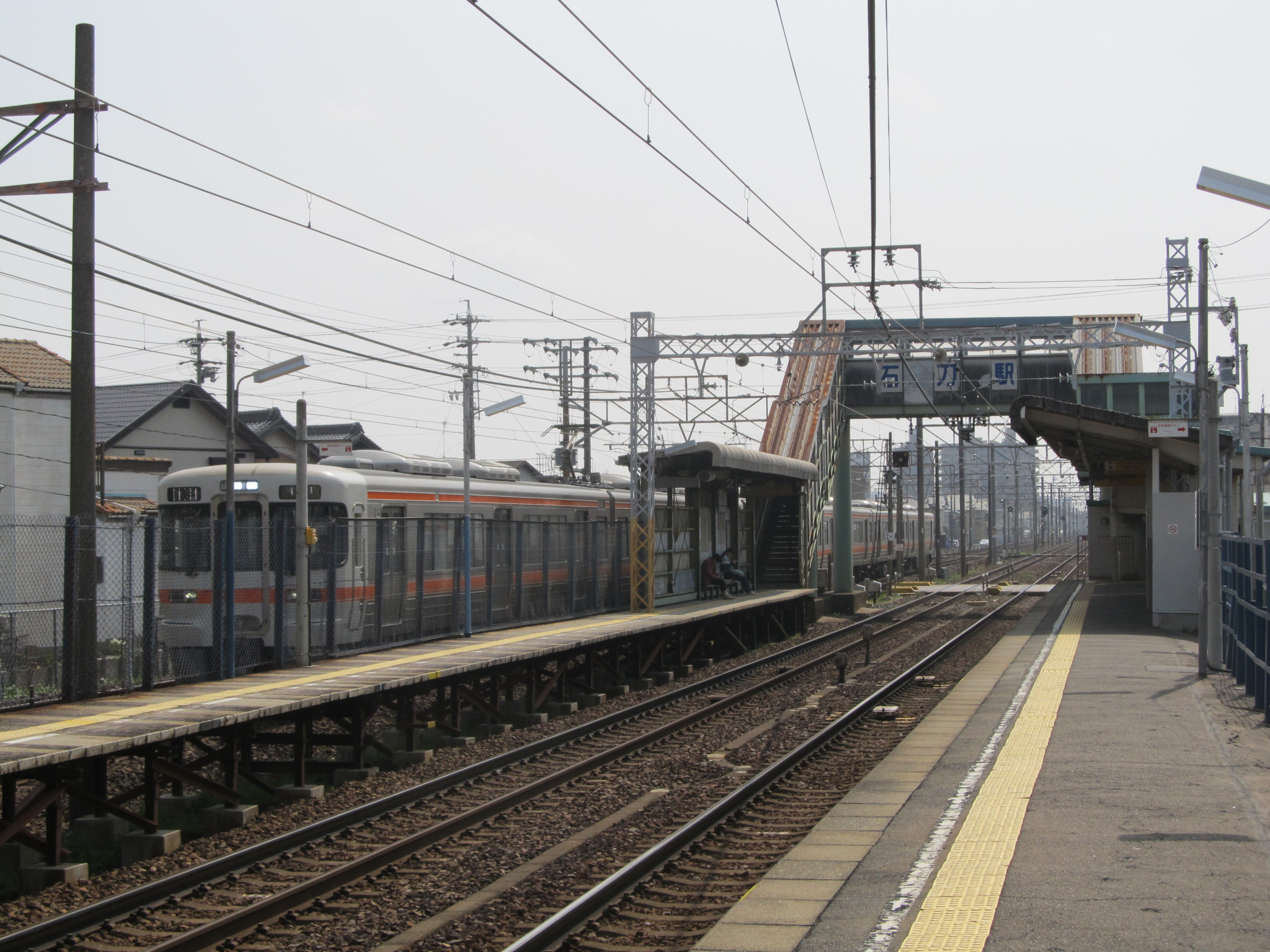 Nagoya Railroad Nagoya Main Line Iwato Station Platform.